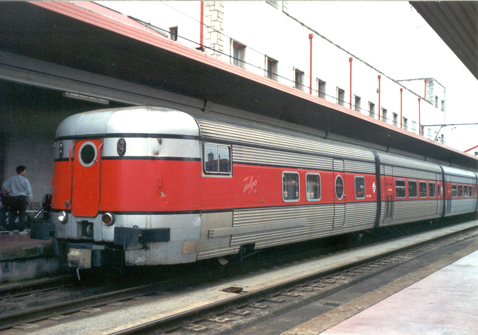 Talgo III in Irun railway station (Spain).